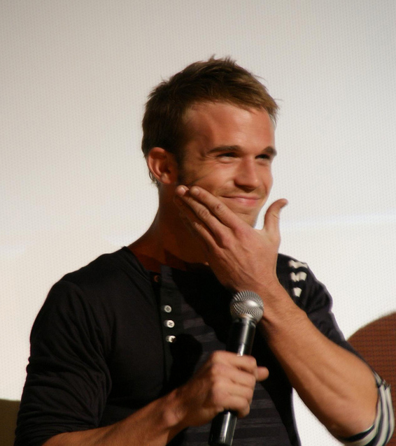 Cam Gigandet